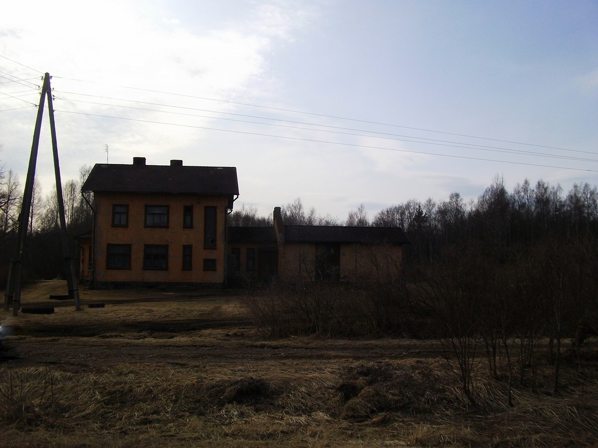 Sakas stacija. 2013.gada 28. aprīlī.